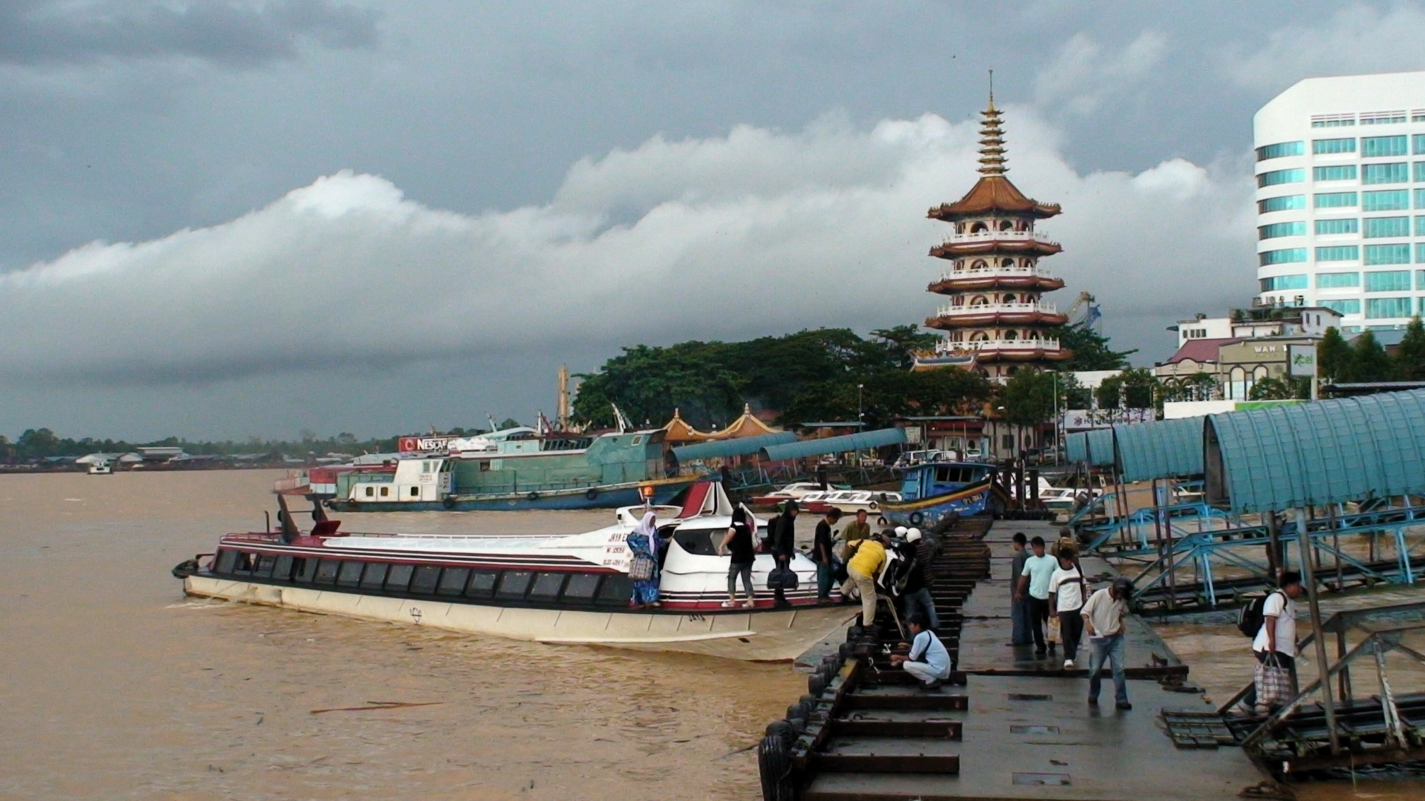 Sibu wharf, Sibu, Sarawak